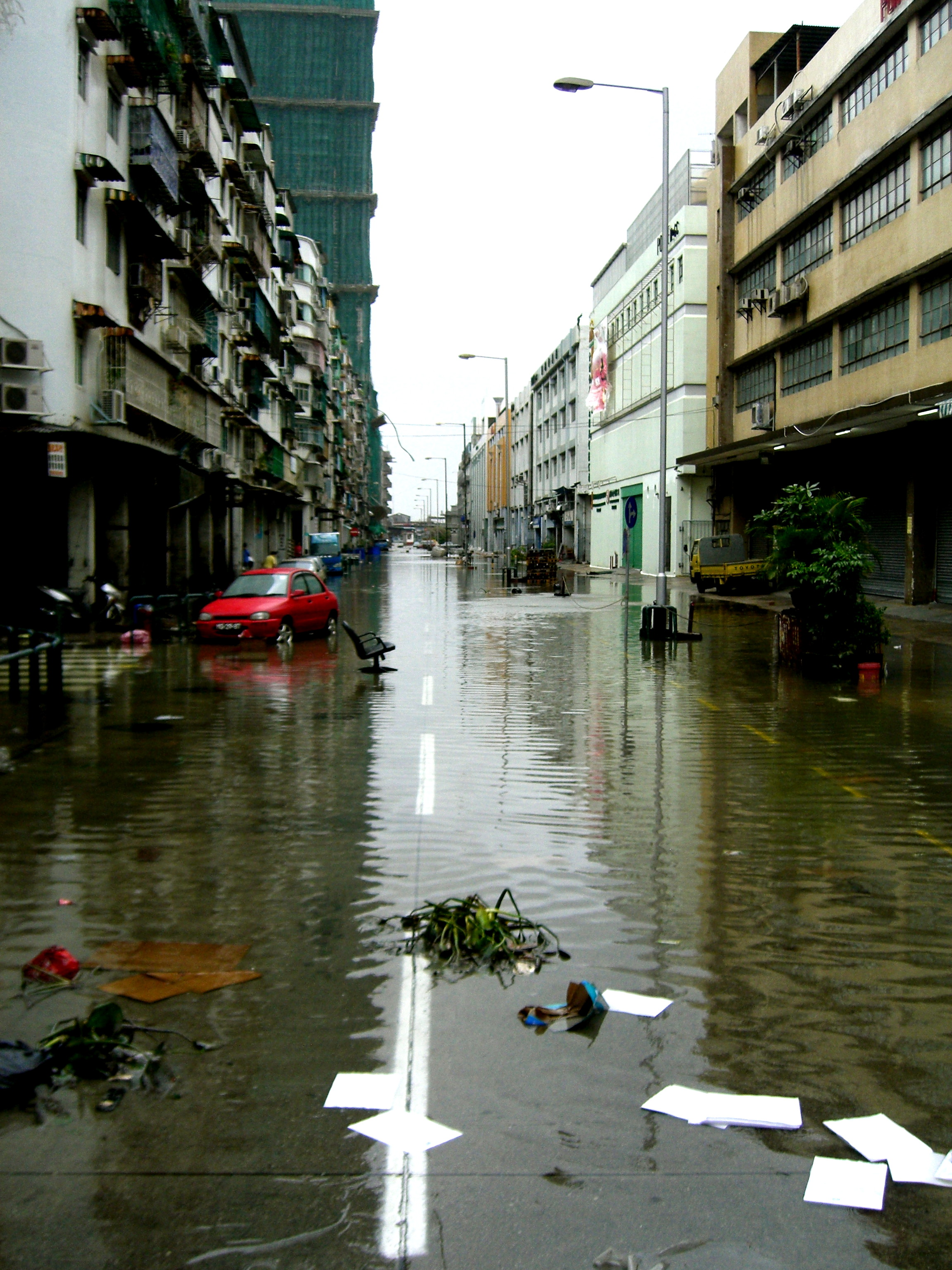 Macau street "Rua do Dr. Lourenco Pereira Marques " during Typhoon Koppu